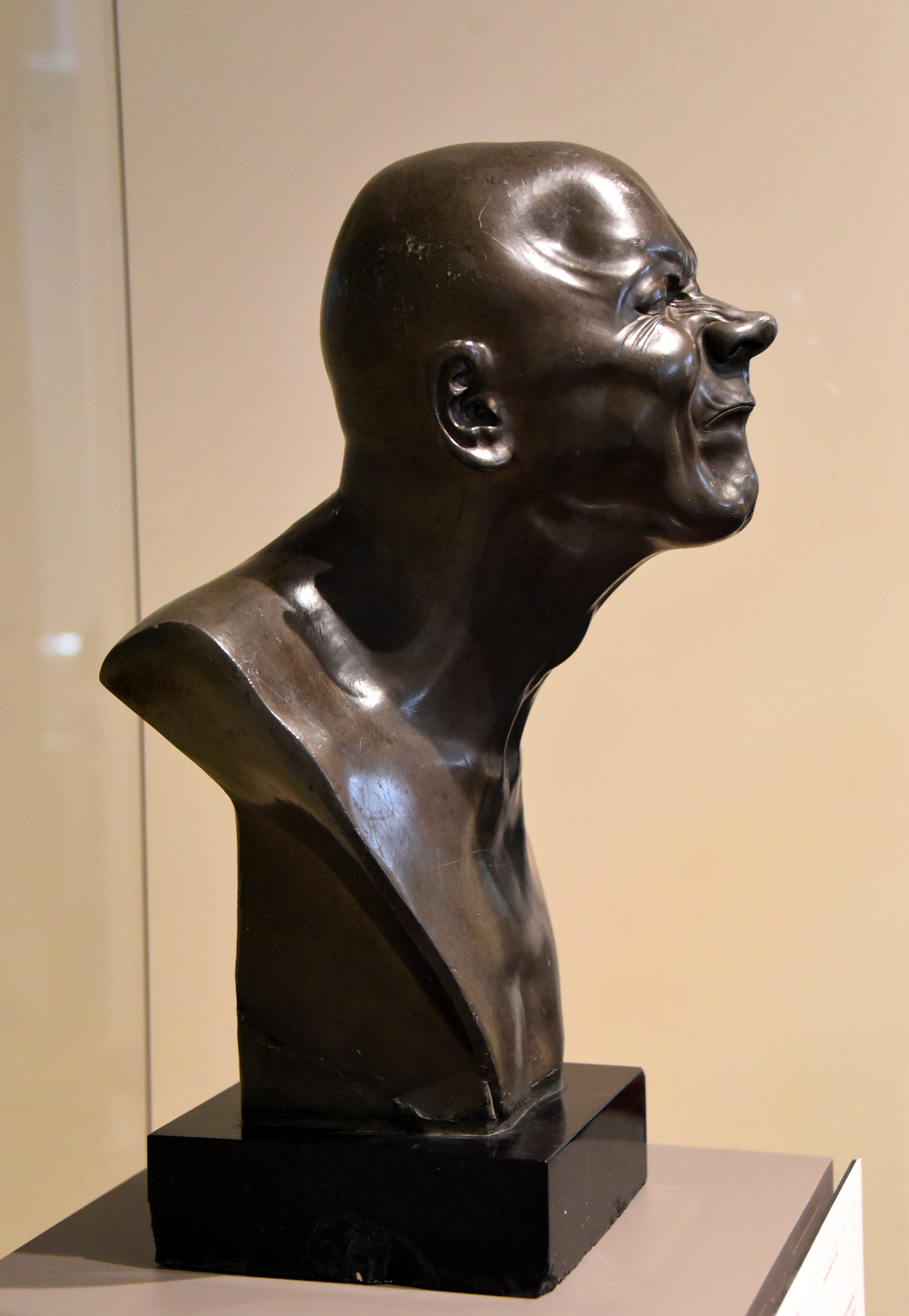 Character Study: 'Strong Smell', circa 1770-1781 CE. Lead-tin alloy. From Austria (Pressburg), now Slovakia (Bratislava). By Franz Xaver Messerschmidt. The Victoria and Albert Museum, London. Purchased with funds from the Captain H. B. Murray Bequest.